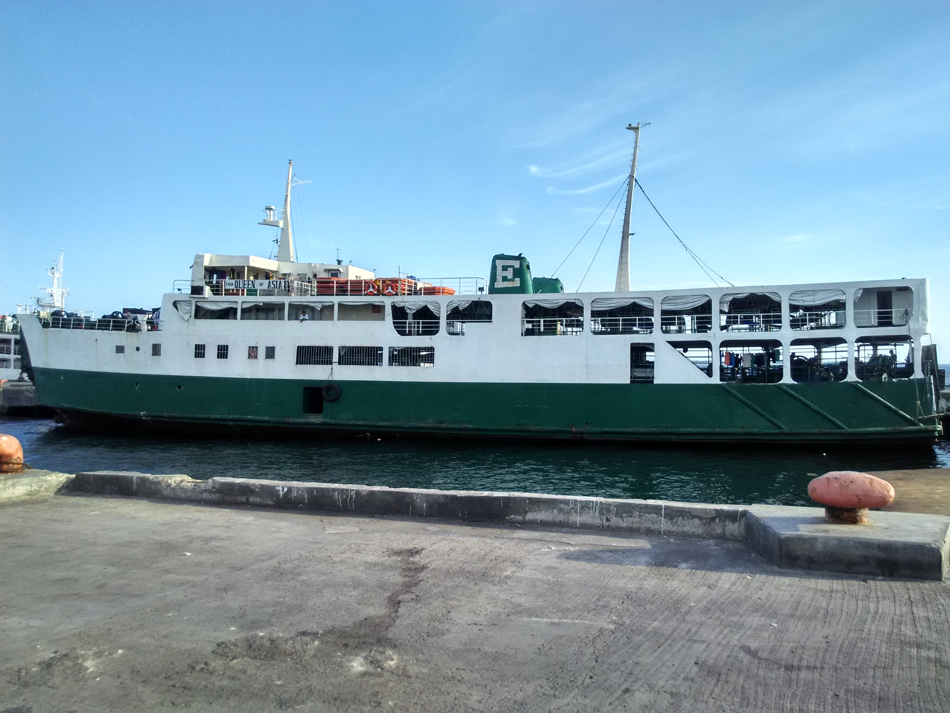 MV Ever Queen of Asia in Zamboanga International Seaport, Filipino Ship Enthusiast Coalition